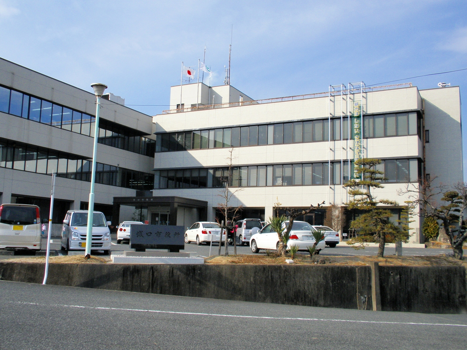 Asakuchi city office Former Kamogata town office (1974.2 - 2006.3.20)